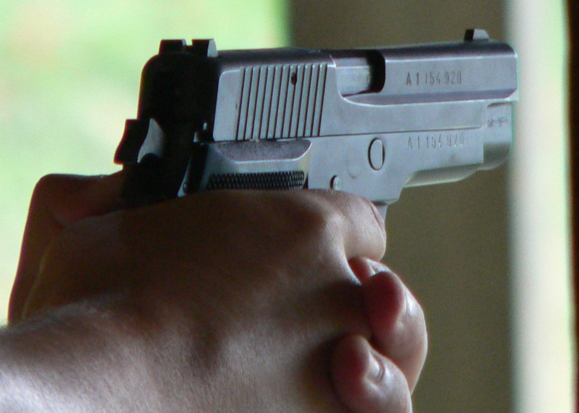 SIG P220 service pistol of the Swiss Army.